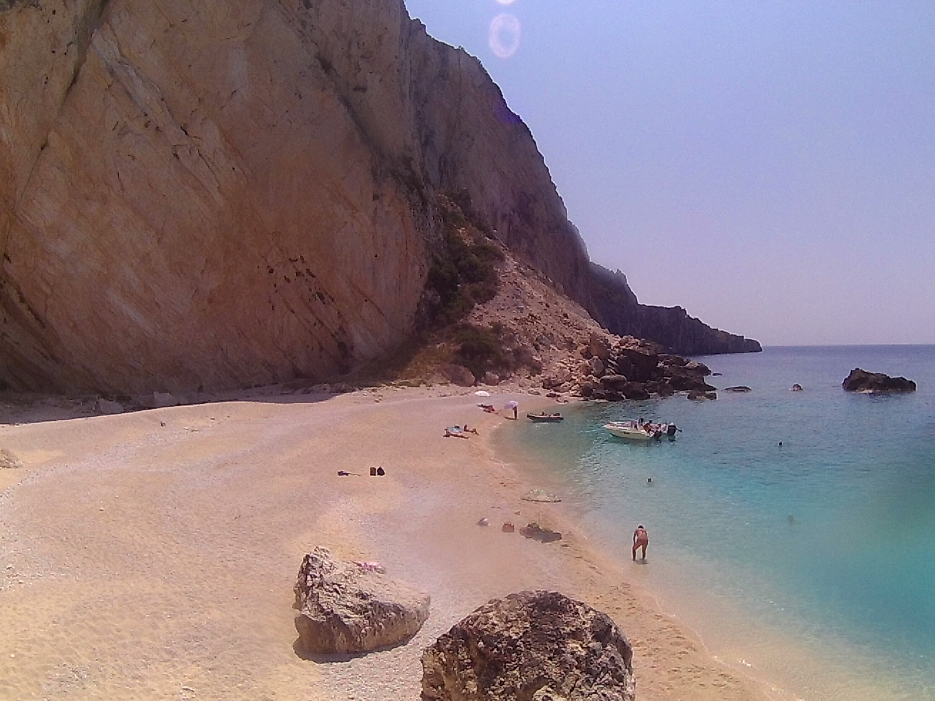 Aspi ammos beach